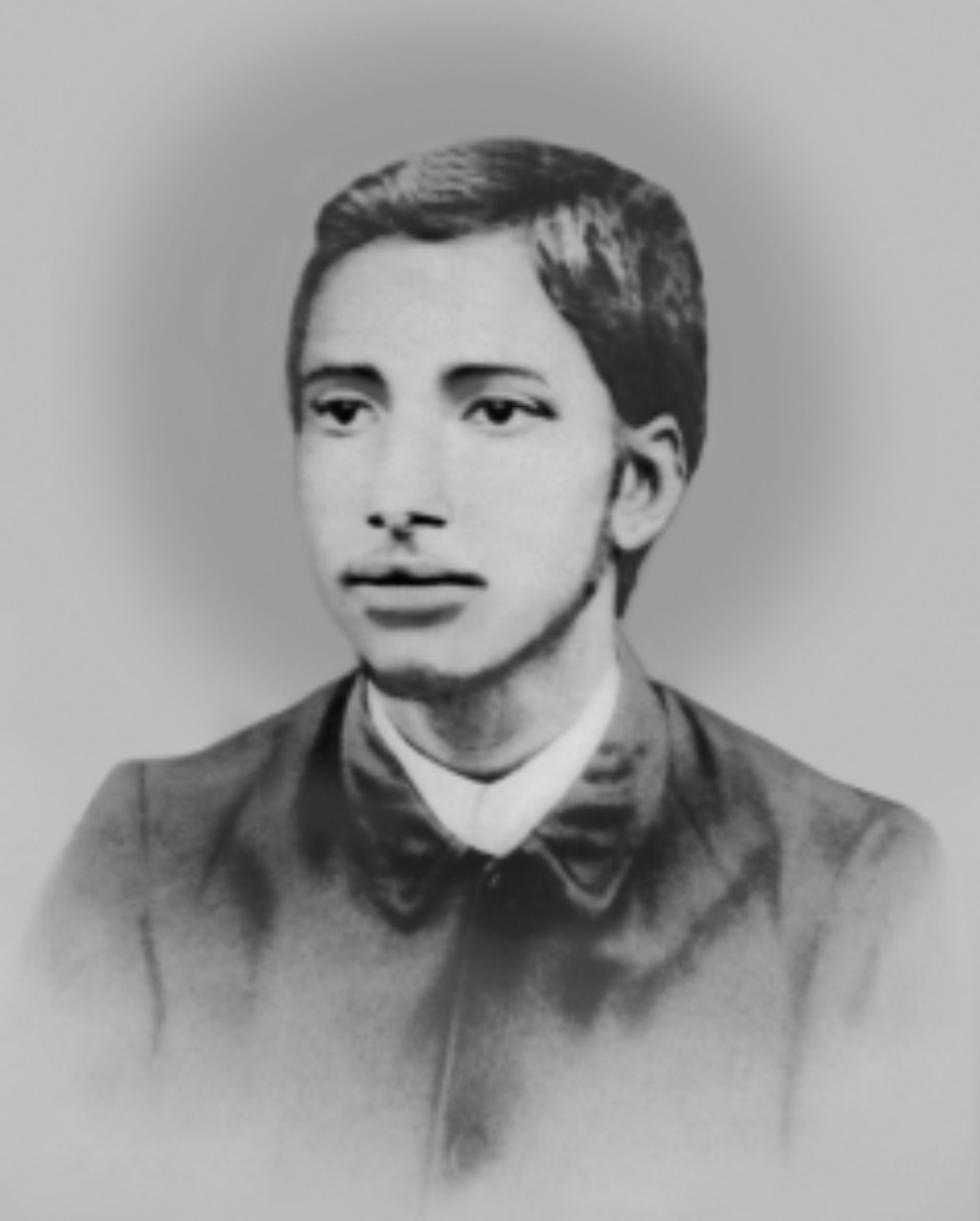 Young Anukulchandra's picture published in Book 'Satyanusaran' in 1918.